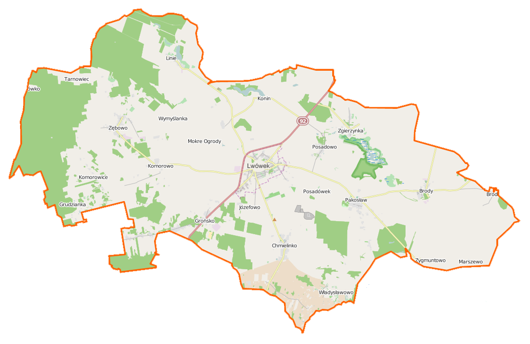 Map of Gmina Lwówek, Poland This map of Lwówek (gmina) was created from OpenStreetMap project data, collected by the community. This map may be incomplete, and may contain errors. Don't rely solely on it for navigation. Border coordinates52.518116.0036←↕→16.365952.3746